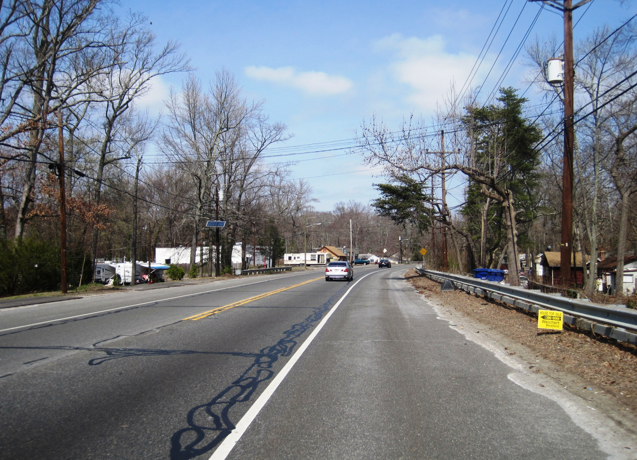 Photo of Ewansville, New Jersey, an unincorporated community on the border of Eastampton (Left), Pemberton (not shown here), and (right) townships. Photo taken looking north along U.S. Route 206 near Rusty Lane.